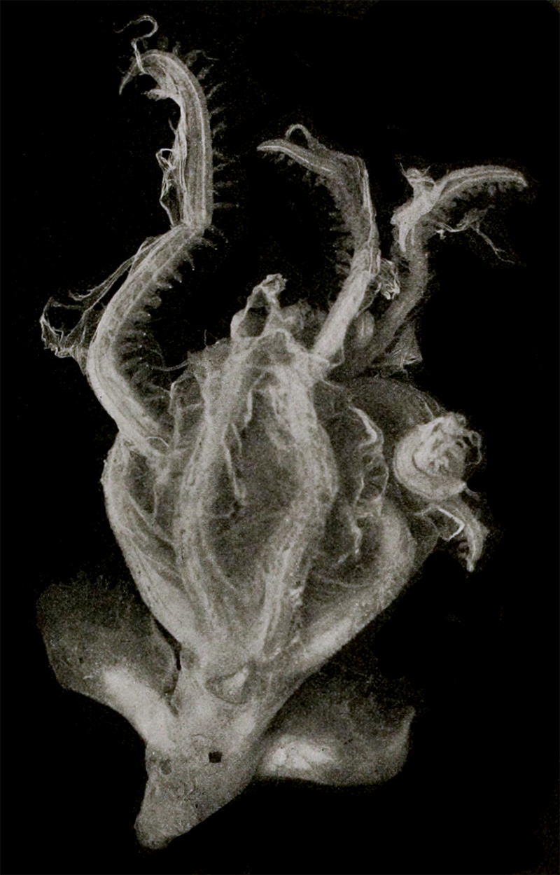 Cirrothauma murrayi